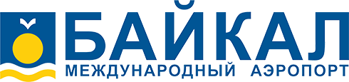 The logo of Ulan-Ude Airport